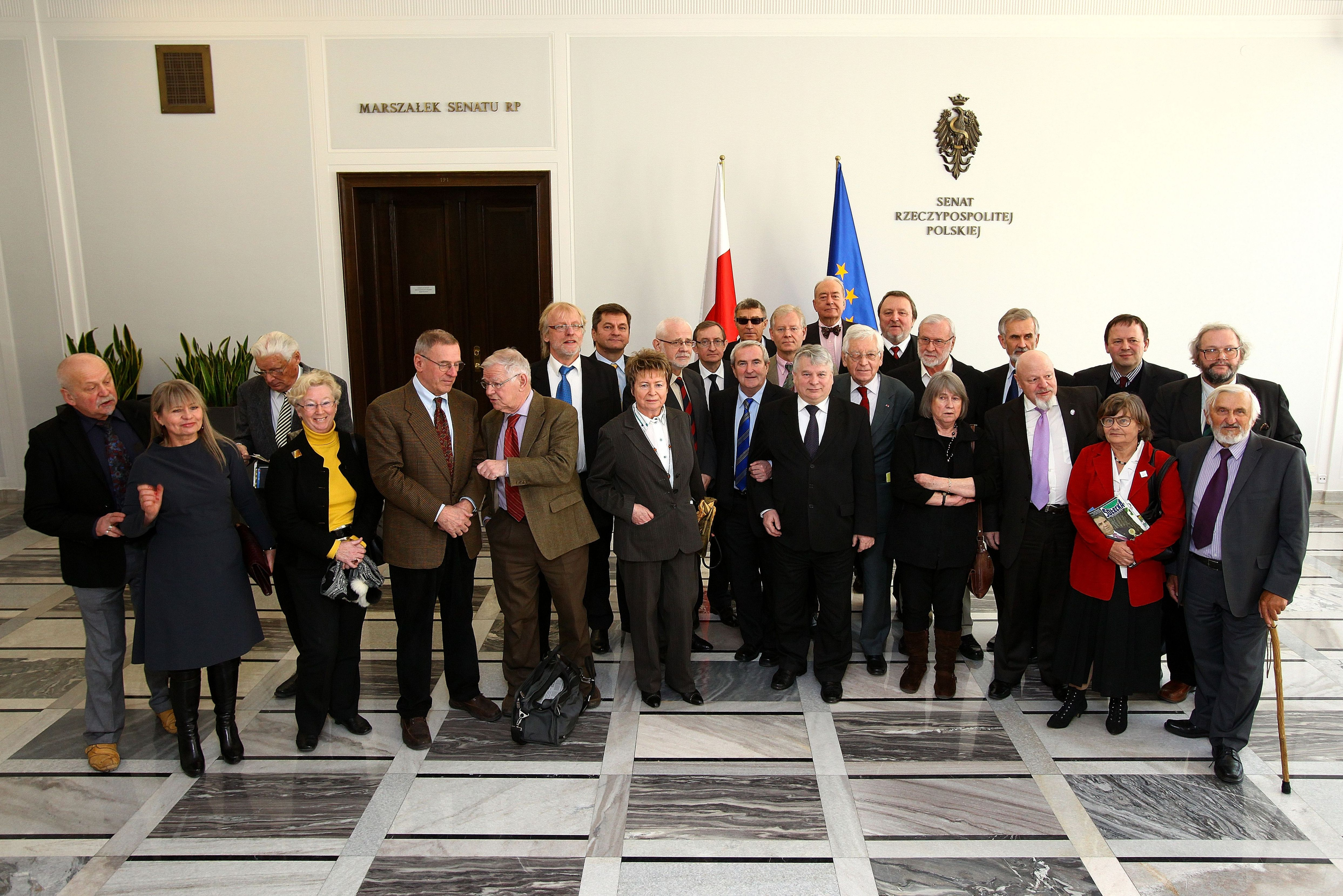 Former employees and associates of the Polish Service of the Radio Free Europe in the Polish Senate